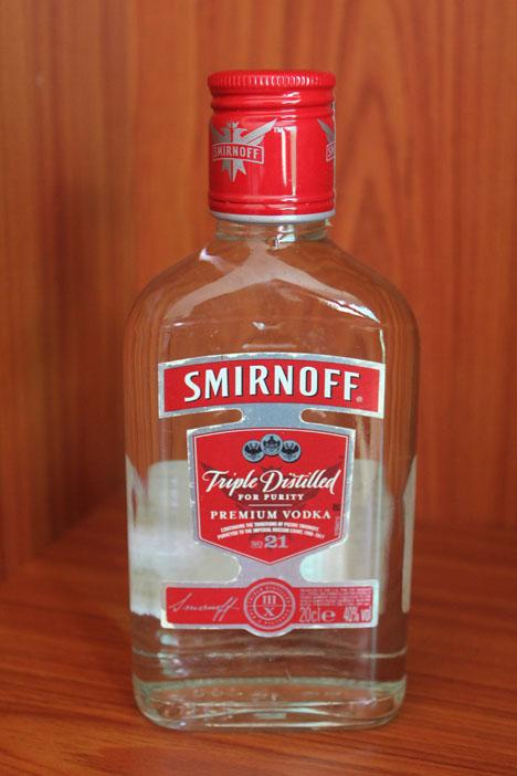 a 200 ml naggin bottle of Smirnoff vodka